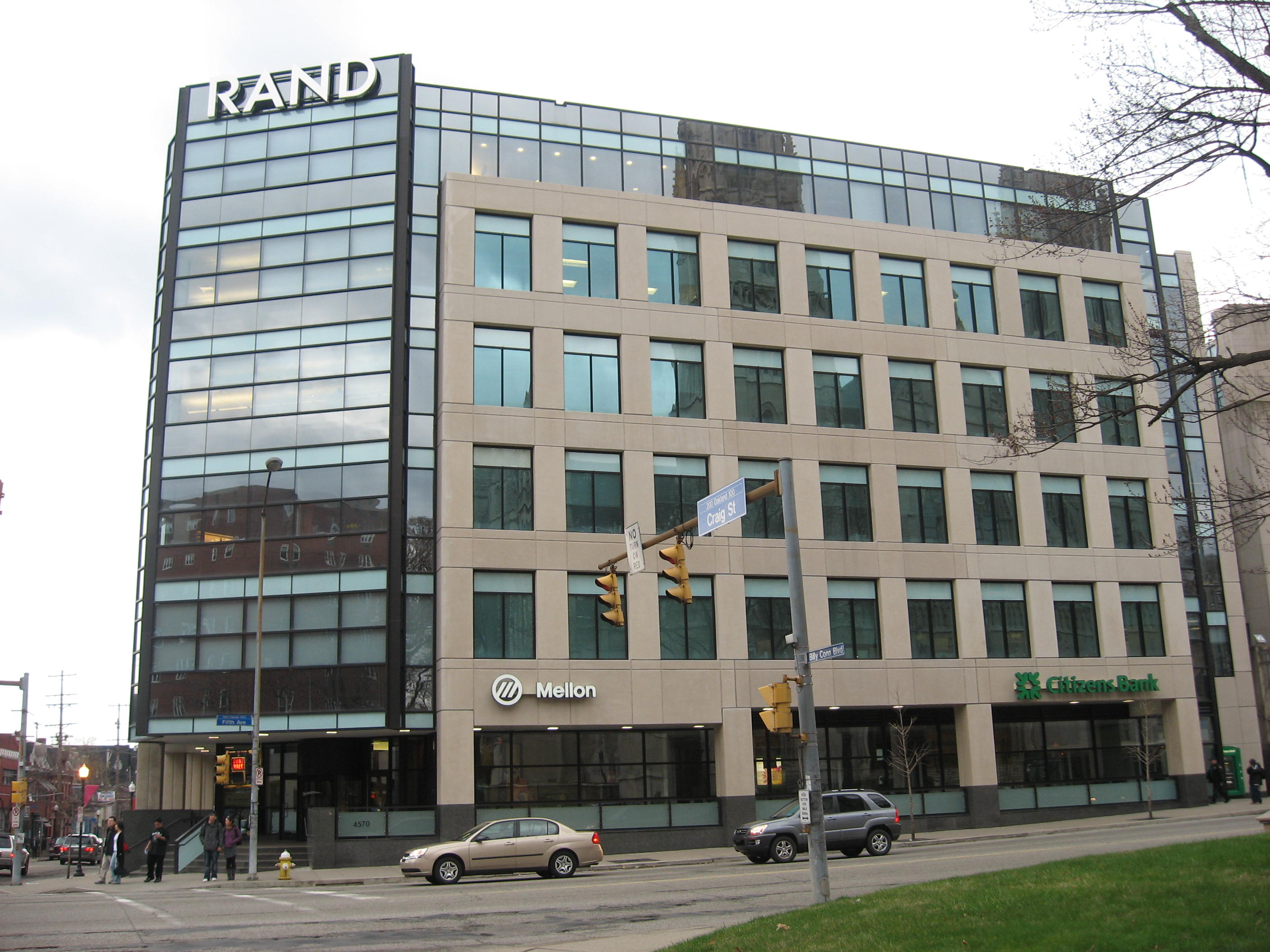 The RAND building in Pittsburgh. 40°26′48.4″N 79°56′57.4″W / 40.446778°N 79.949278°W